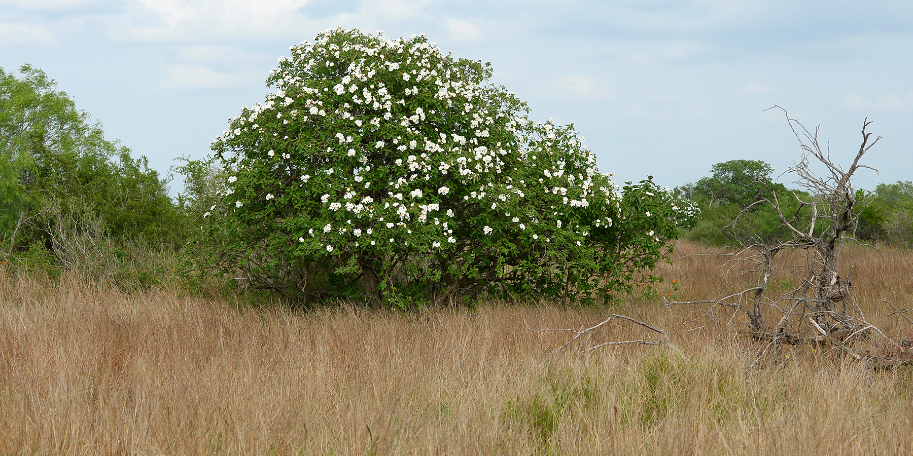 Wild Olive (Cordia boissieri) in bloom, Farm to Market Road 1017, Jim Hogg County, Texas, USA Photographed on 10 April 2016 by William L. Farr